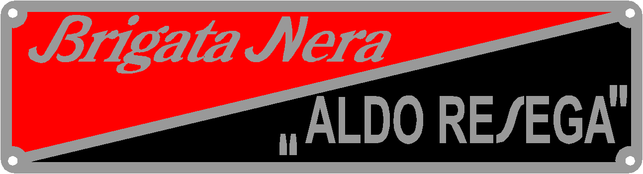 Black Brigades - Italian Social Republic - Brigade breast badge